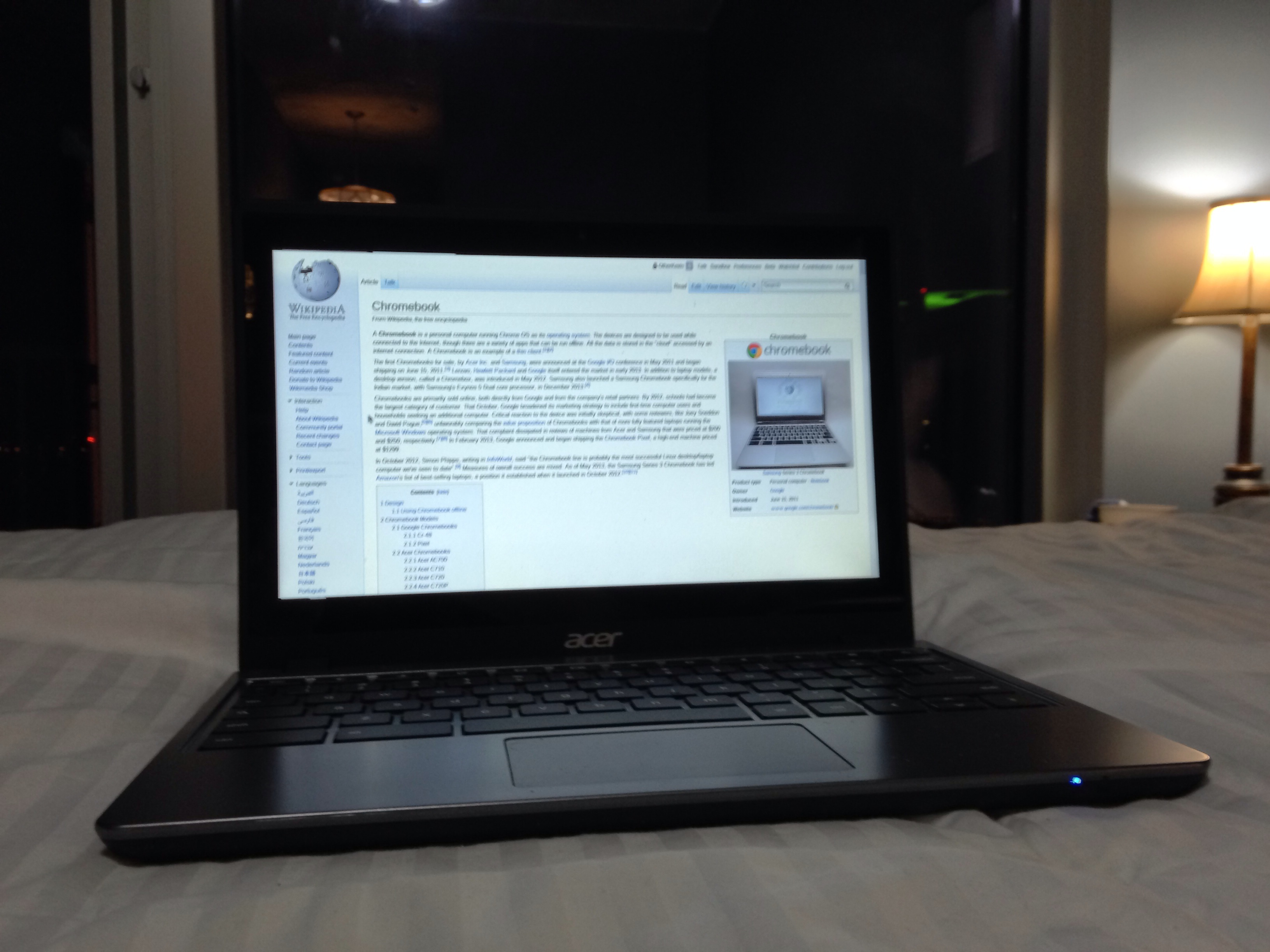 Acer C720P-2666 Chromebook